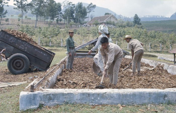 Drying cinchona at an experimental garden